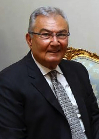 Deniz Baykal & Recep Tayyip Erdoğan meeting after 2015 Turkish general elections